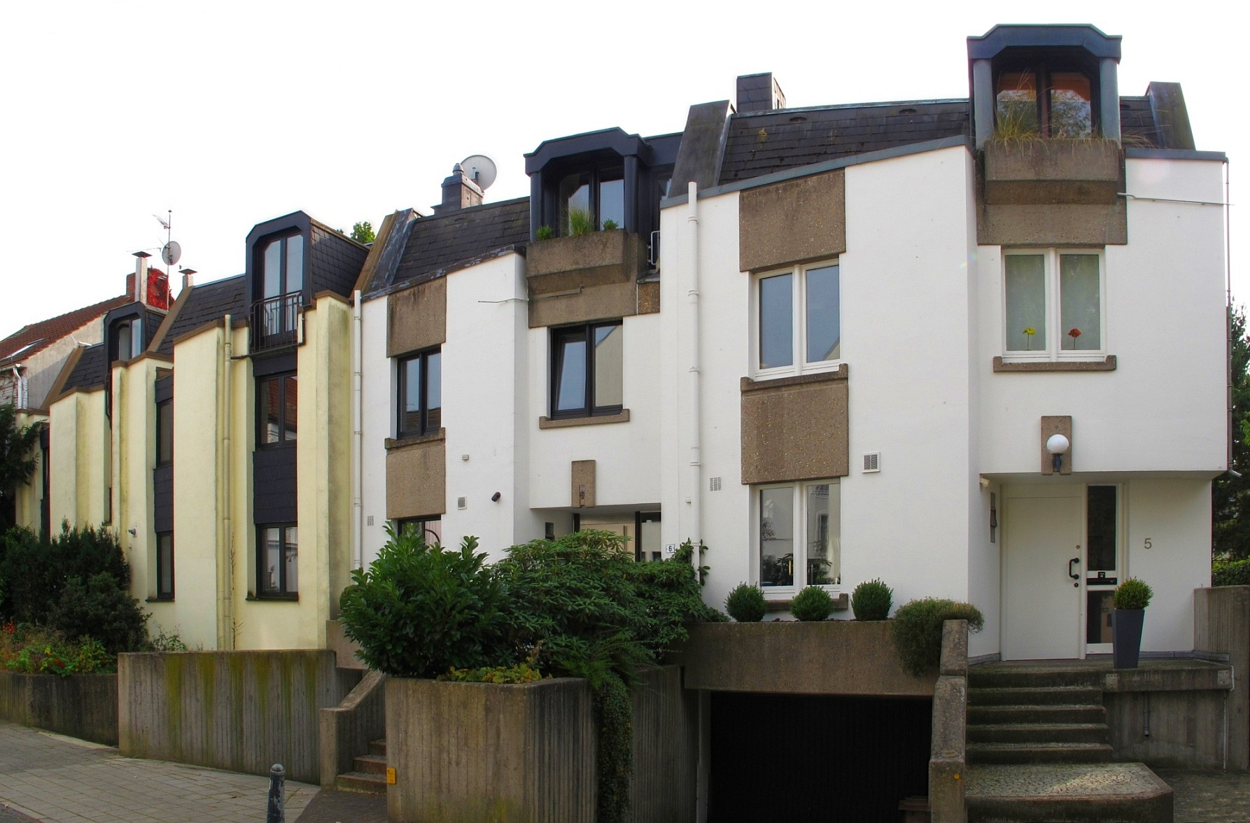 Beim Paulskloster 5-8, Bremen (Germany)